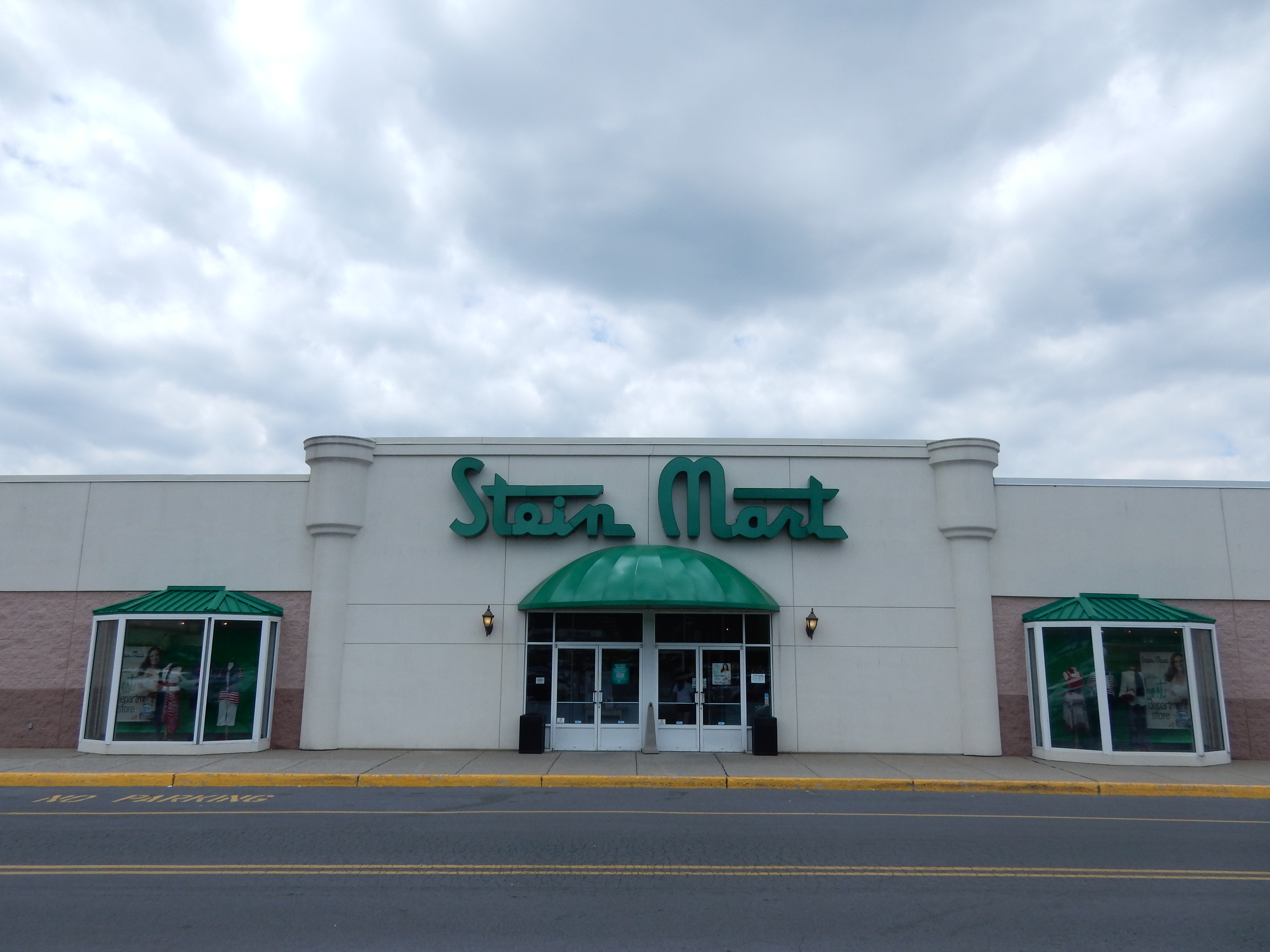 South Mall in Allentown and Salisbury Township, Lehigh County, Pennsylvania.